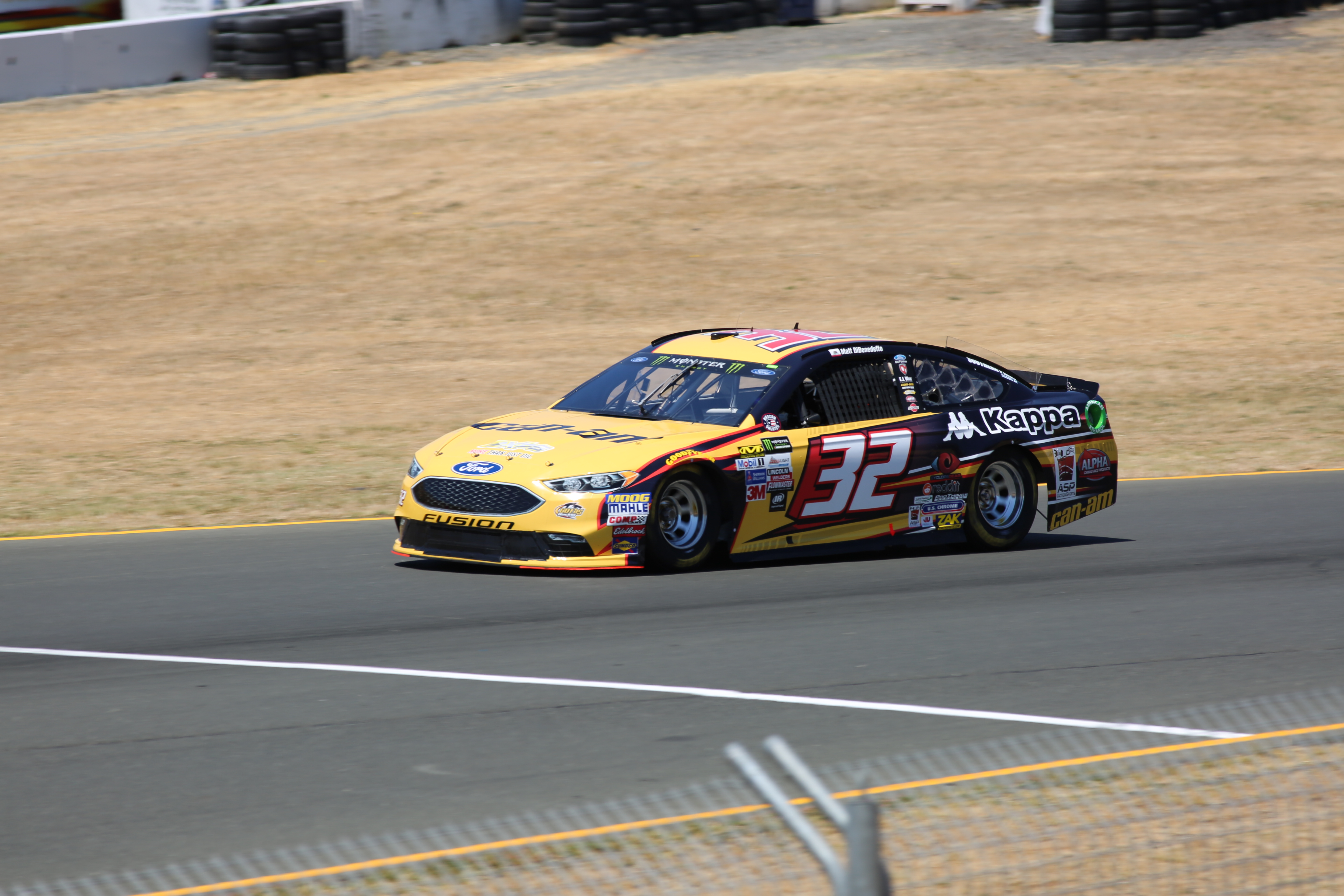 Matt DiBenedetto's No. 32 Can-Am/Kappa Ford at Sonoma Raceway in 2017